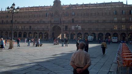 Illustration of an image with an aspect ratio of 16:9 (1:1.77)